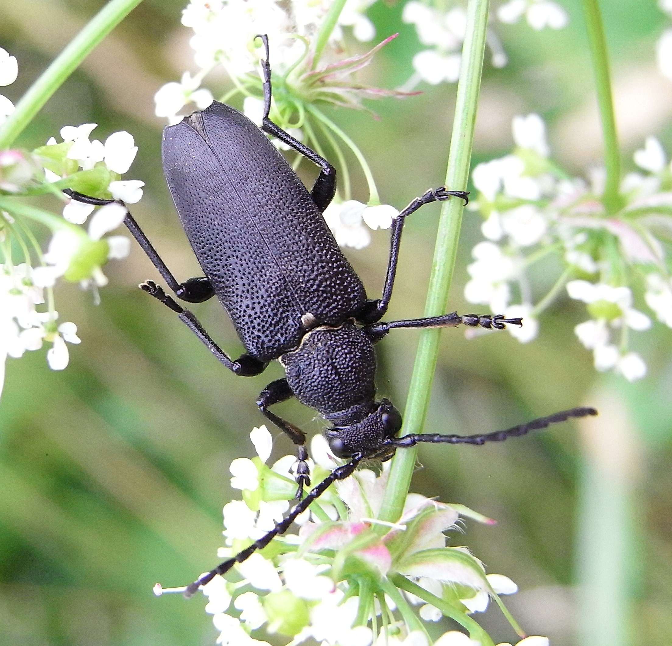 Stictoleptura scutellata from Hungary, Matra-hills, 2010-05-27 Ricoh R8